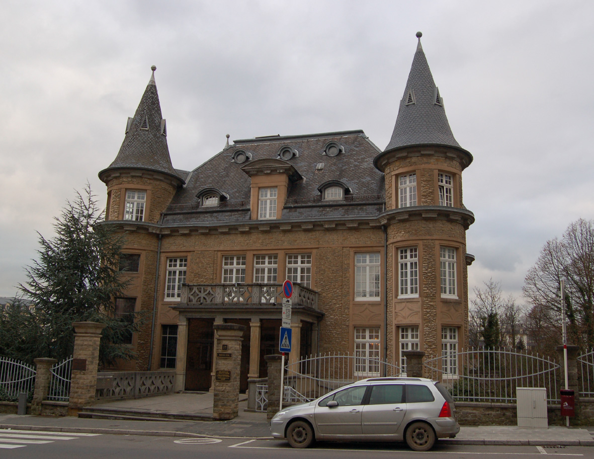 Picture of the Villa Pauly in Luxembourg City. Headquarter of the GESTAPO during the occupation in WWII.